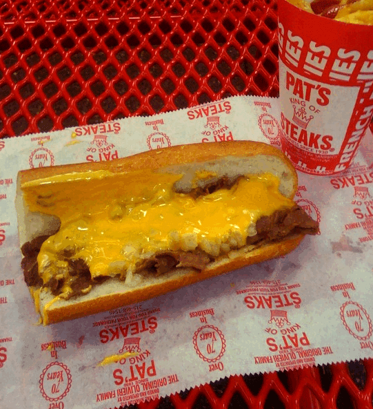 A cheesesteak with Cheez Whiz and onions from Pat's King of Steaks, or a "whiz wit," accompanied by fries.